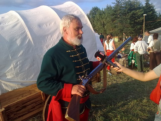 The Battle at Vavrišovo